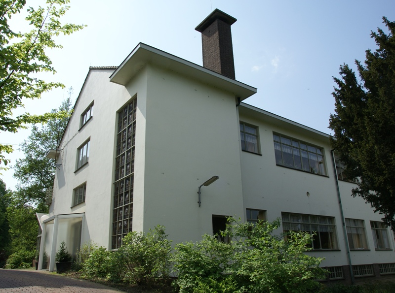 National monument no. 506708 - Brusselsestraat 38, St Lydwinahuis, Maastricht, The Netherlands.